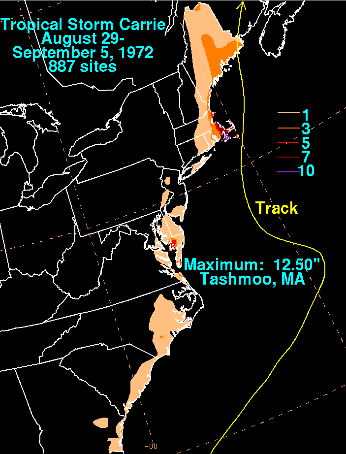 Storm total rainfall map of Tropical Storm Carrie during August and September 1972.